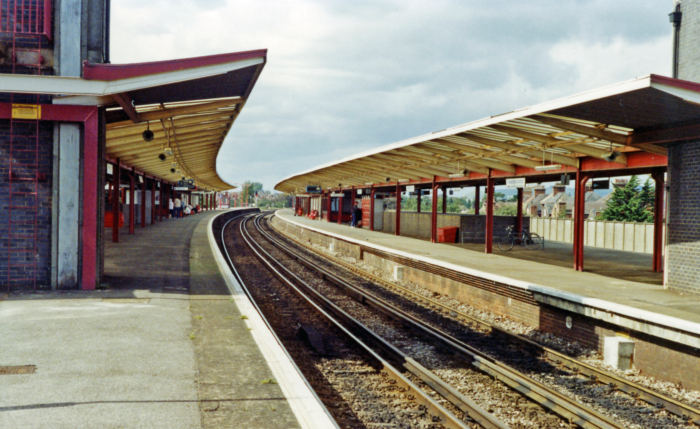 Folkestone Central station, 1992. View westward, towards Ashford etc. and London: ex-SE&CR London - Ashford - Folkestone - Dover main line, electrified 1961.